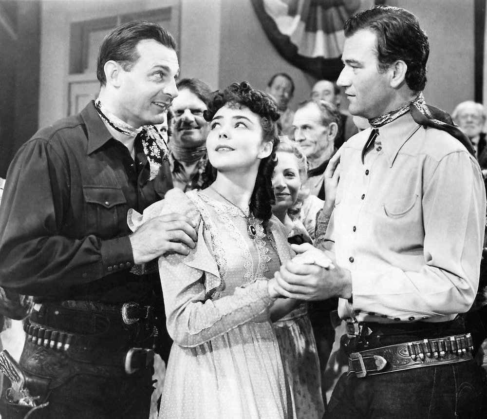 Ray Corrigan, Jennifer Jones & John Wayne in New Frontier aka Frontier Horizon - cropped screenshot (original image : see source)